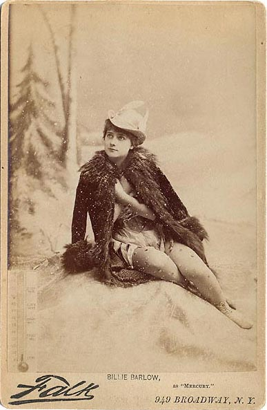 Actress Billie Barlow (1852-1937) in the role of Mercury played in 'Orpheus and Eurydice' at the Bijou Opera House in New York.